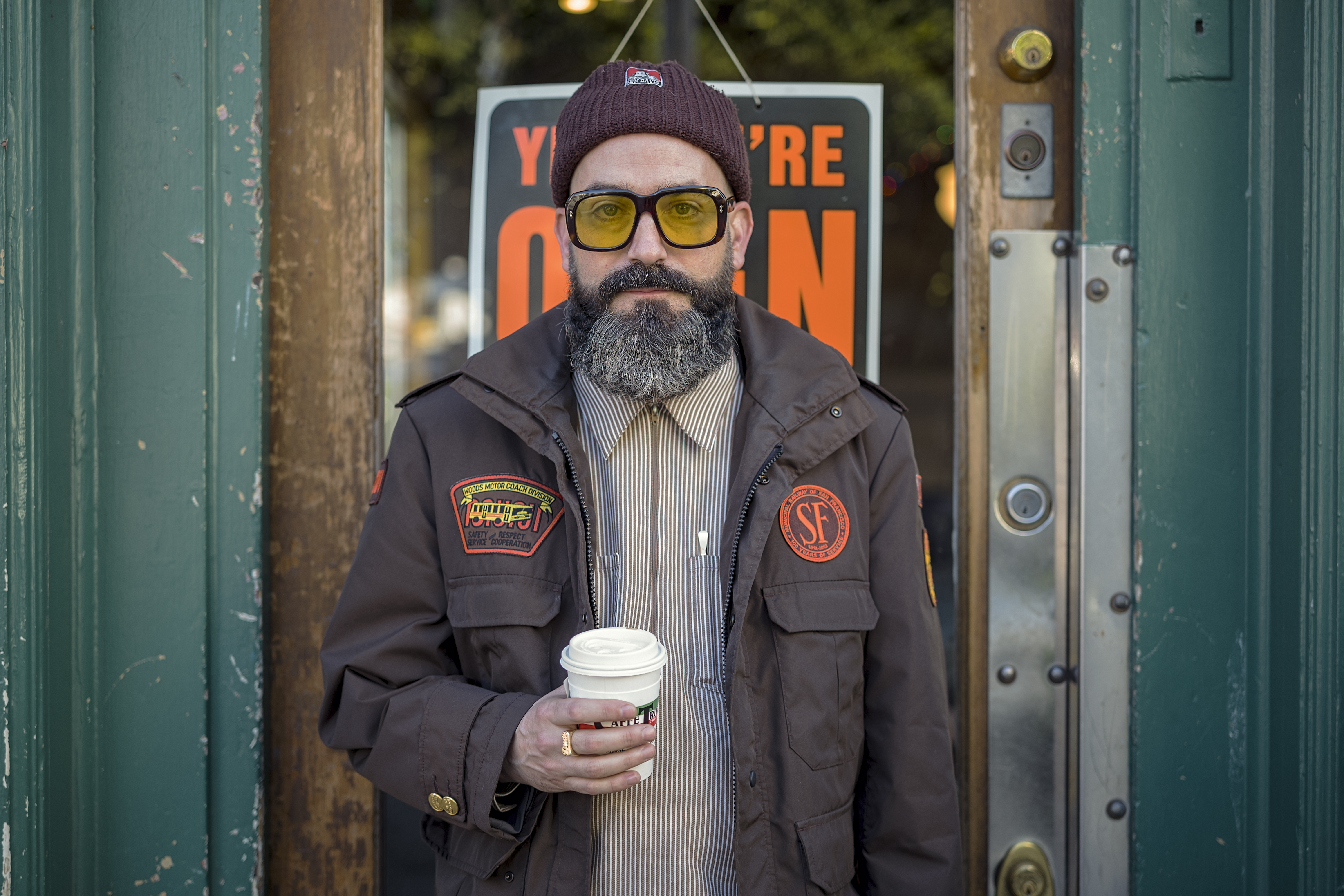 Jeremy Fish in San Francisco by Christopher Michel